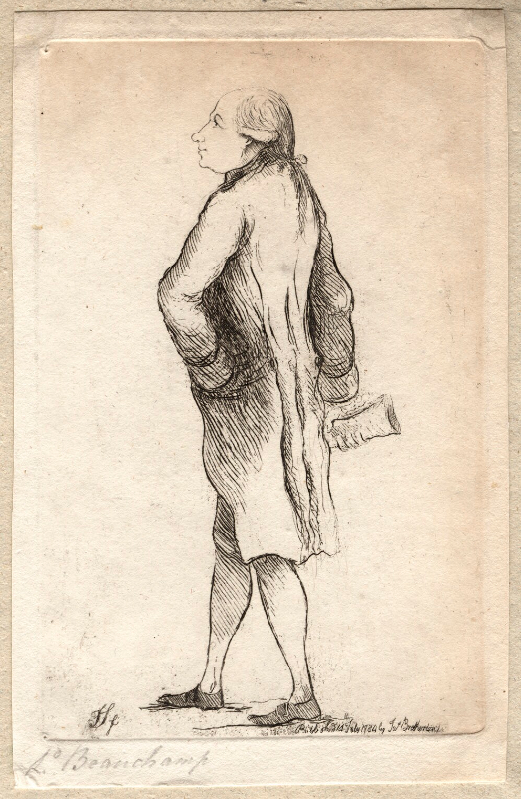 Francis Seymour Conway, 2nd Marquess of Hertford, by James Sayers NPG D9798 Francis Seymour Conway, 2nd Marquess of Hertford (1743-1822), Politician; Chief Secretary for Ireland 6 7/8 in. x 4 1/2 in. (174 mm x 113 mm) plate size; 7 3/4 in. x 5 in. (197 mm x 126 mm) paper size